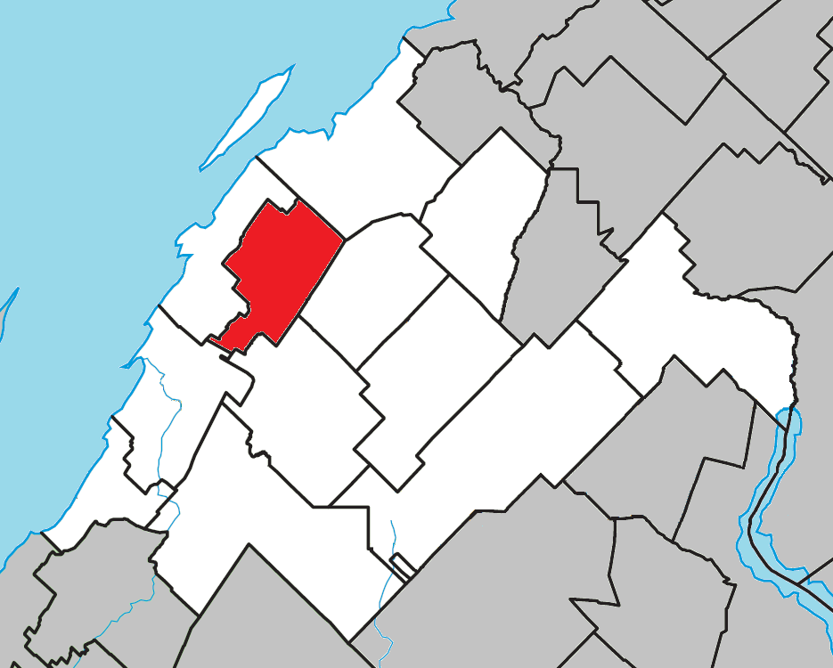 Location of Saint-Arsène, Quebec within Rivière-du-Loup Regional County Municipality.